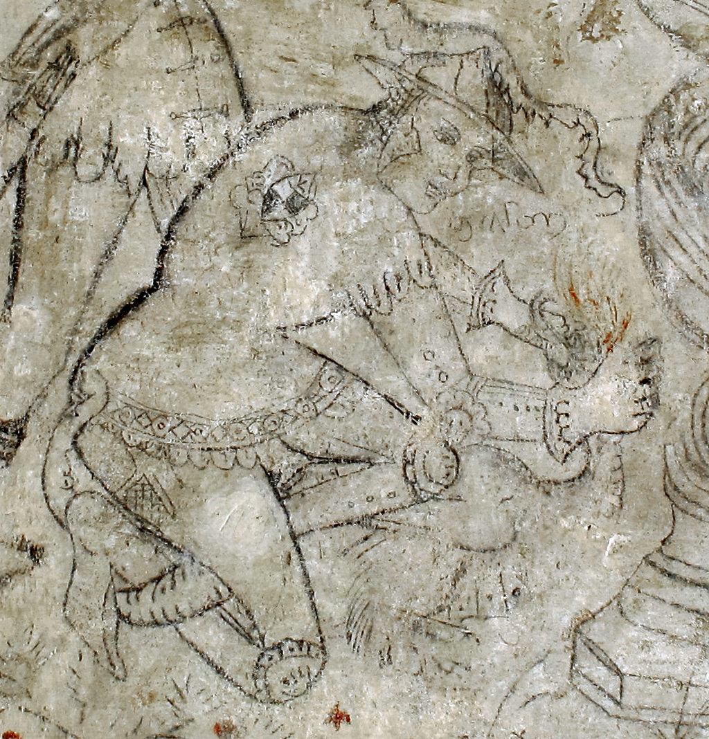 Villa Le Brache - Stories of the Argonauts